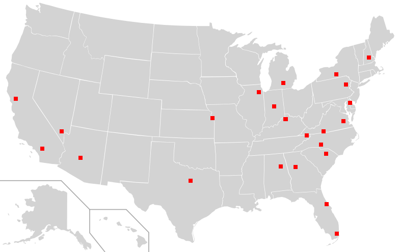 United States Monster Energy NASCAR Cup Series track locations.